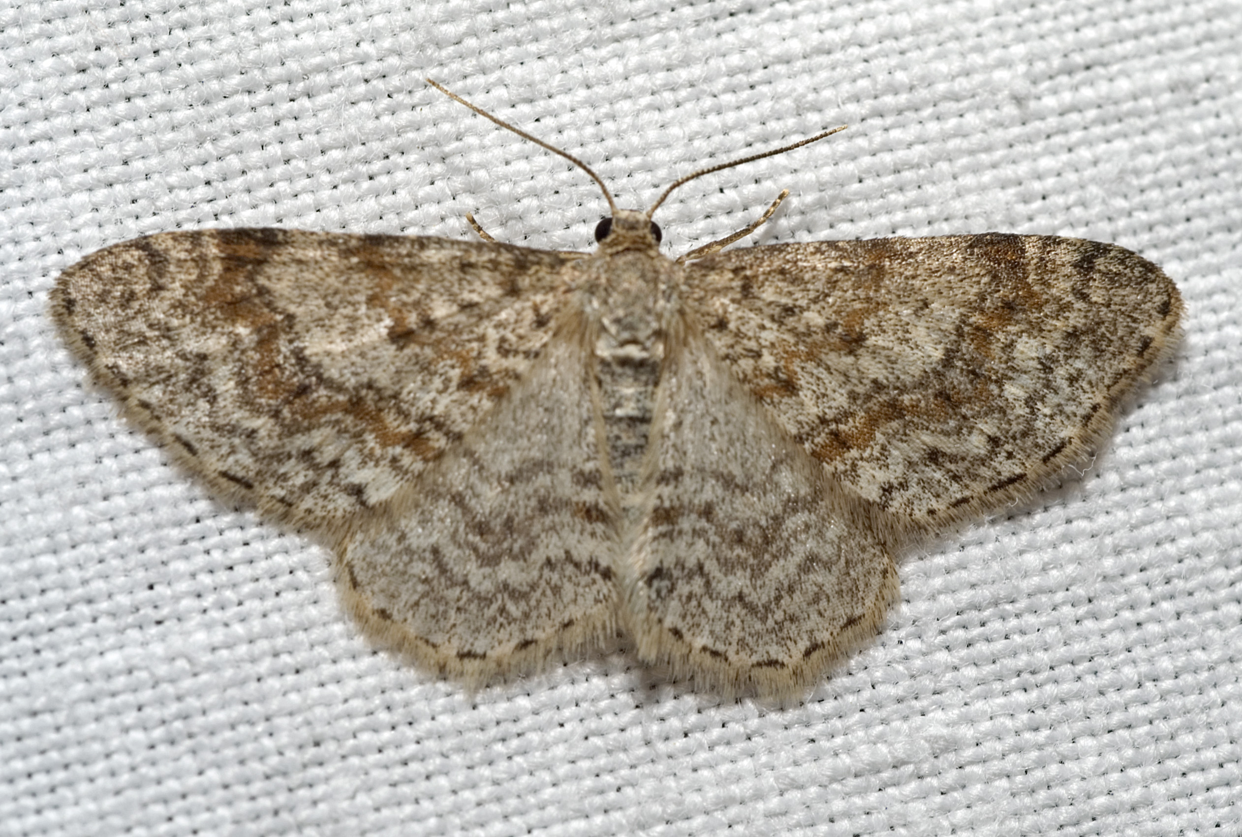 Description: Hydrelia sylvata